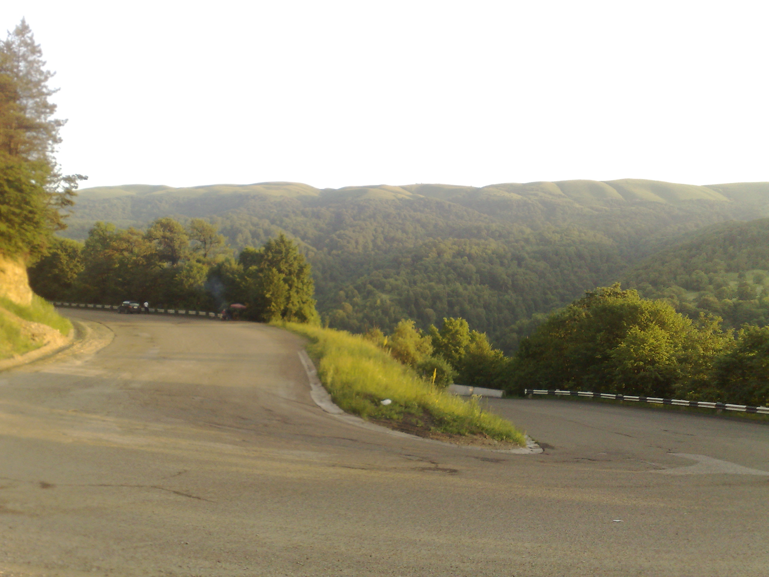 Tavush province of Armenia. Road M-4, which connest Erevan with cities Dilijan and Idjevan.